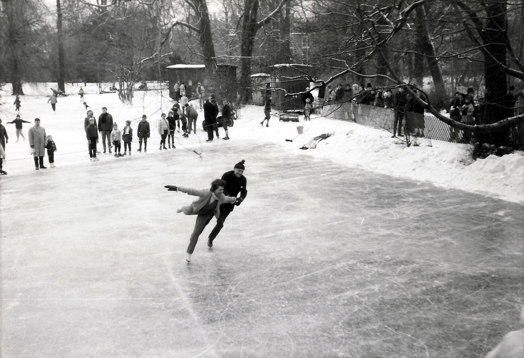 The Danish figure skating champions for pair, Eva & Harry Meistrup, show their skills on a frozen channel in Frederiksberg Castle's Garden, Copenhagen ca. 1958.